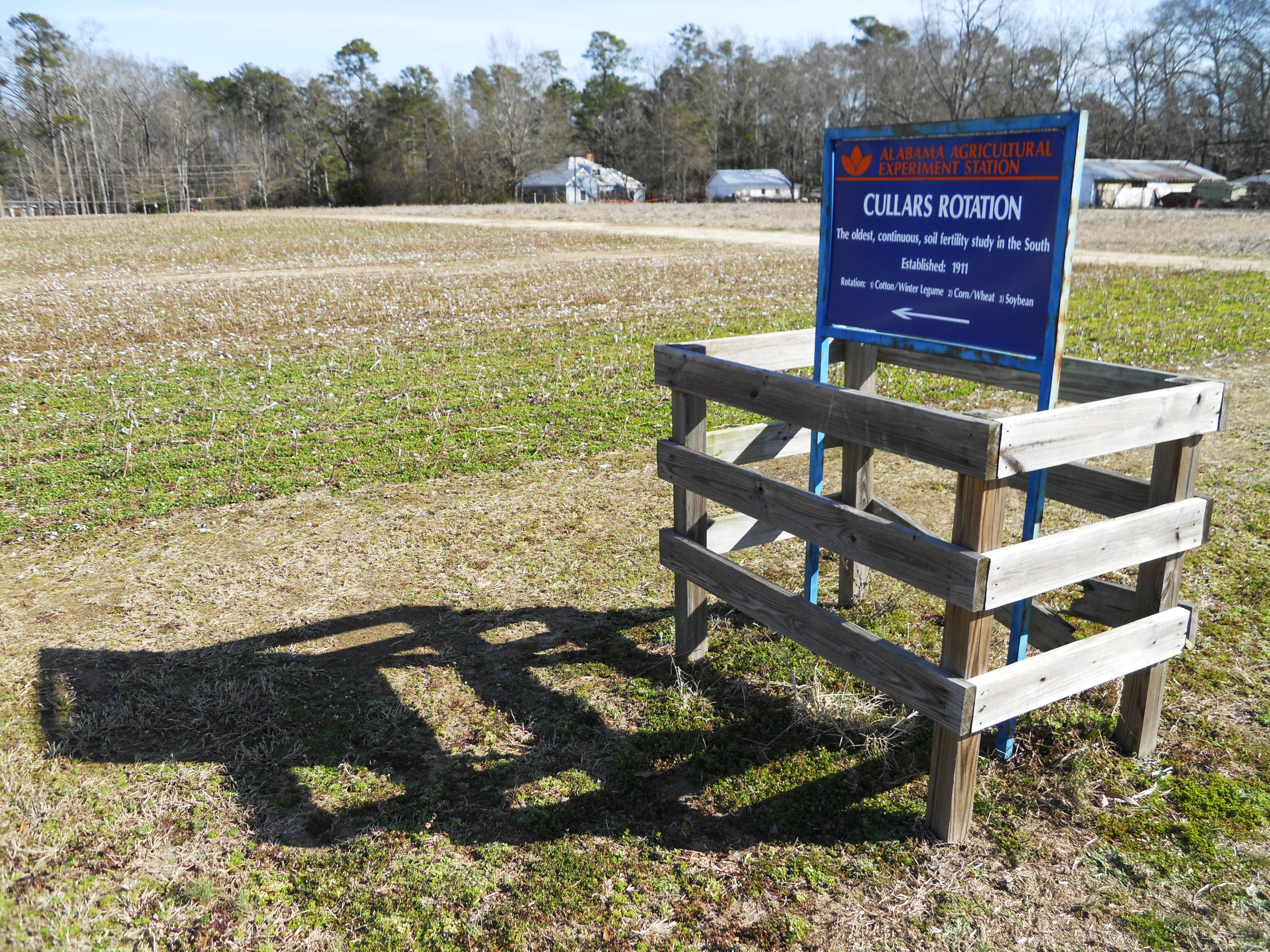 This is a picture of Cullars Rotation which is the oldest continuous soil fertility experiment in the Southeastern United States. Cullars Rotation is located on the campus of Auburn University on the corner of South College Street and Woodfield Drive.